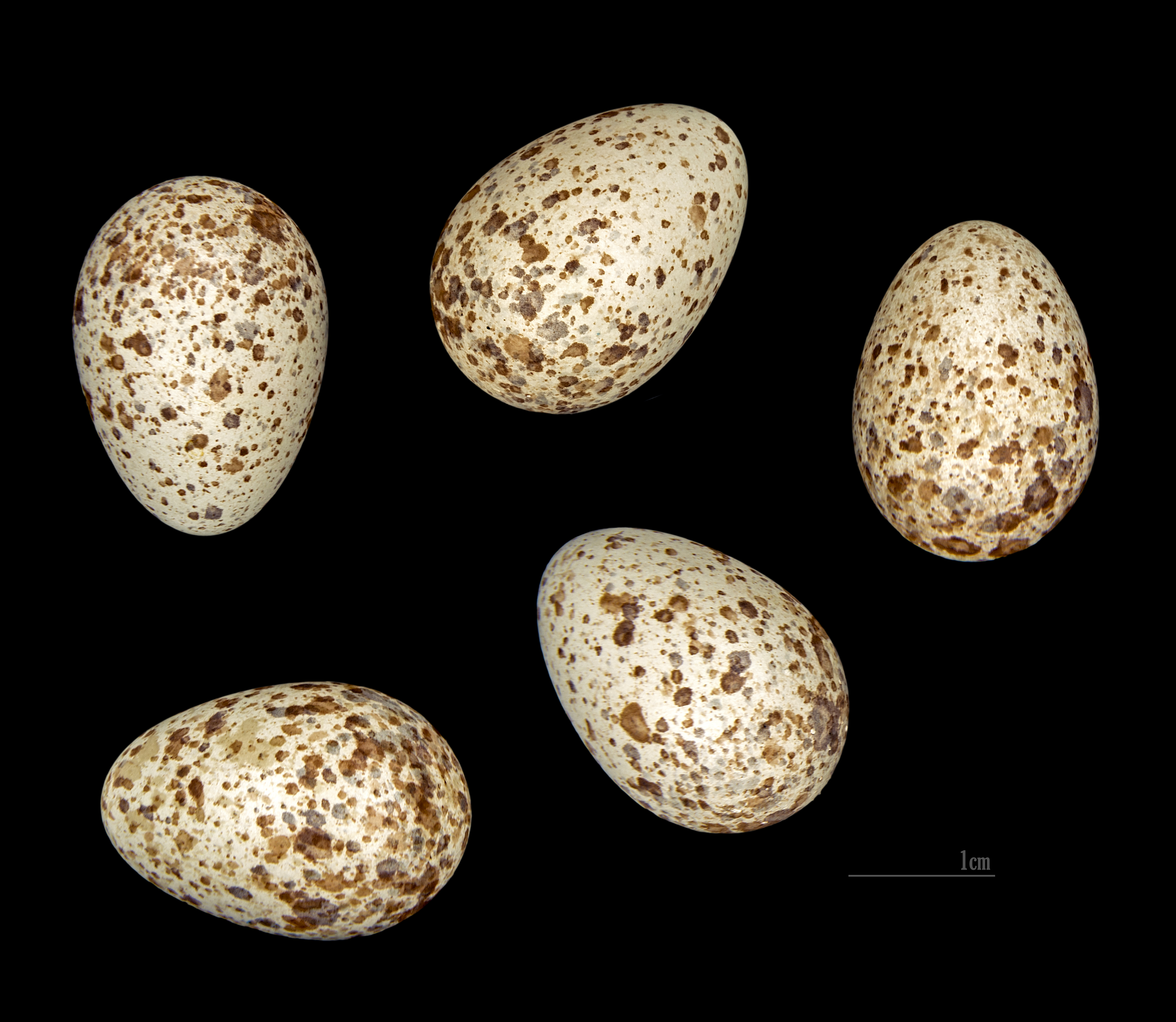 Egg of Calandra Lark . Collection of Jacques Perrin de Brichambaut.